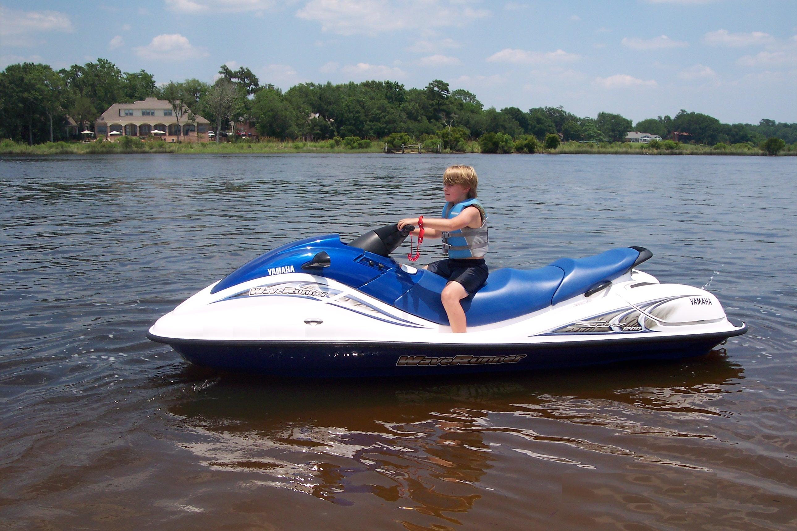 A child rides and plays on a Yamaha SUV Personal water craft. Some personal water craft carry as many as four passengers, contain up to 215HP (160kW) engines, reach speeds of up to 65 miles per hour[pursuant to an agreement that USCG reached with the industry in the fall of 1999[see BSAC Minutes] (113 kilometers per hour), carry 25 U.S. gallons (95 liters) of fuel, and feature amentities such as sun pads and extra padded cruising seats.